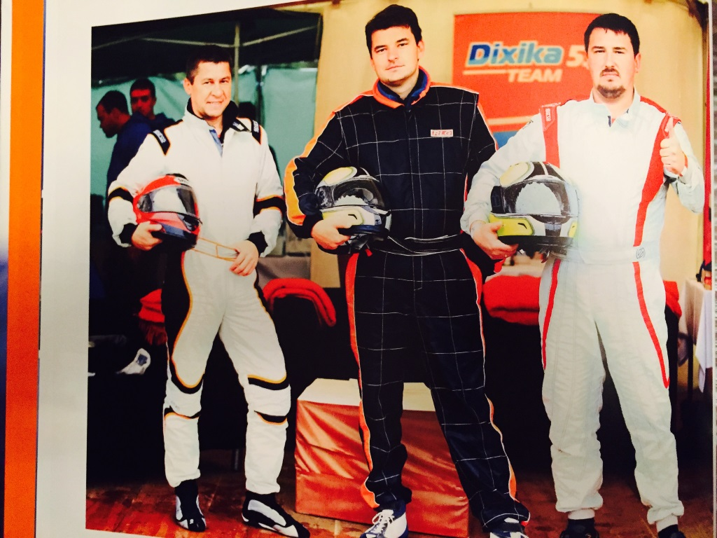 Alexander Kashapov